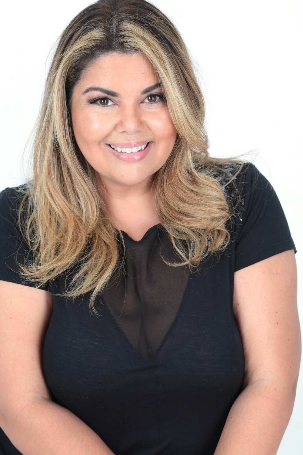 Fabiana Karla